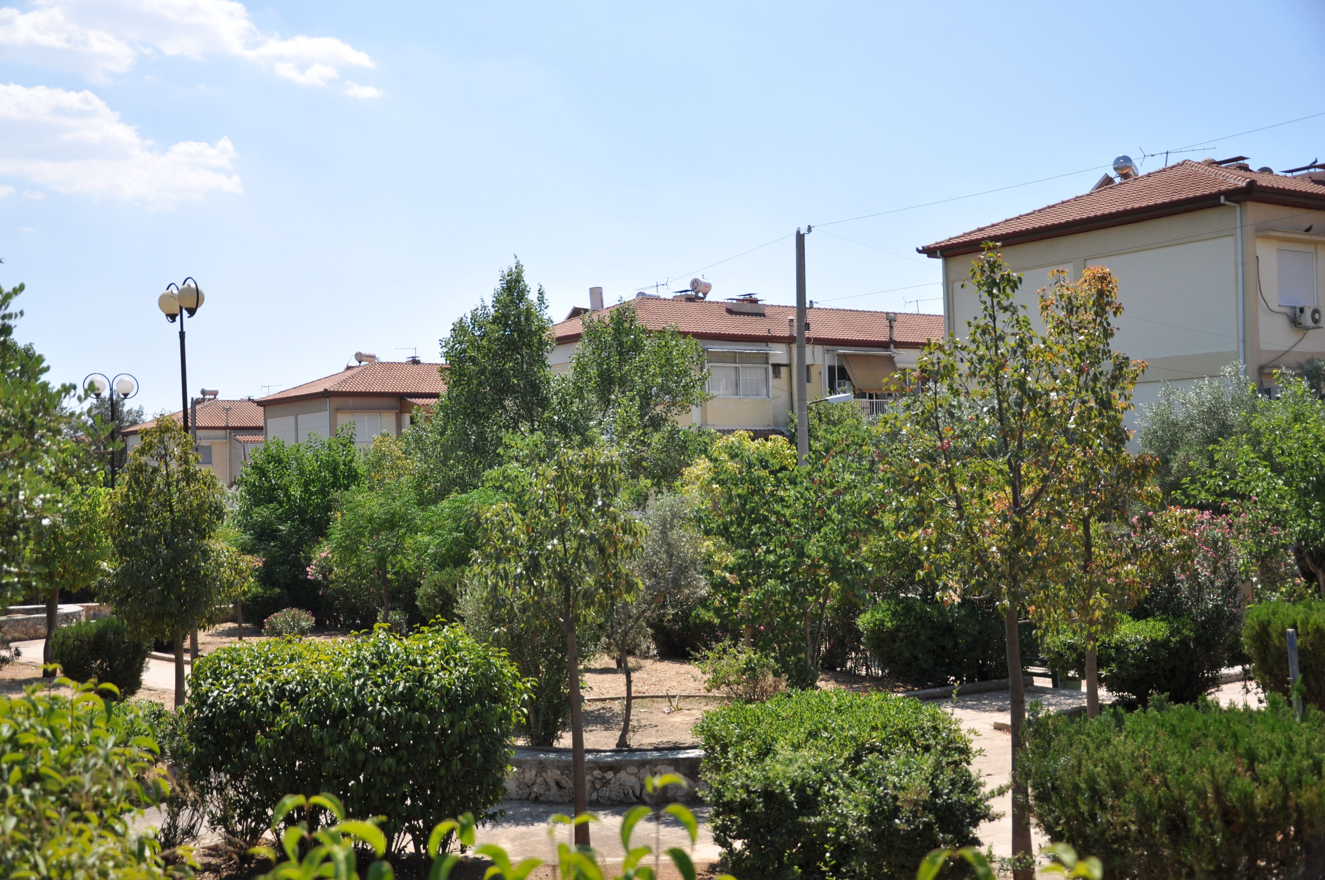 Nea Filadelfia - typical worker's housing